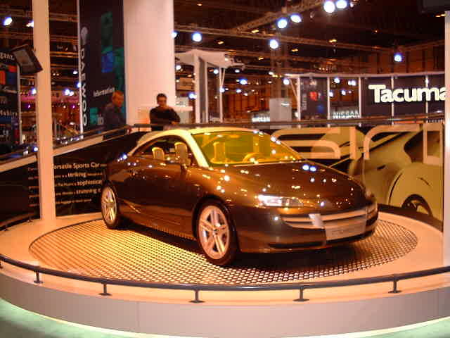 Daewoo Musiro Concept Car at British Motorshow, NEC Birmingham, October 2000.